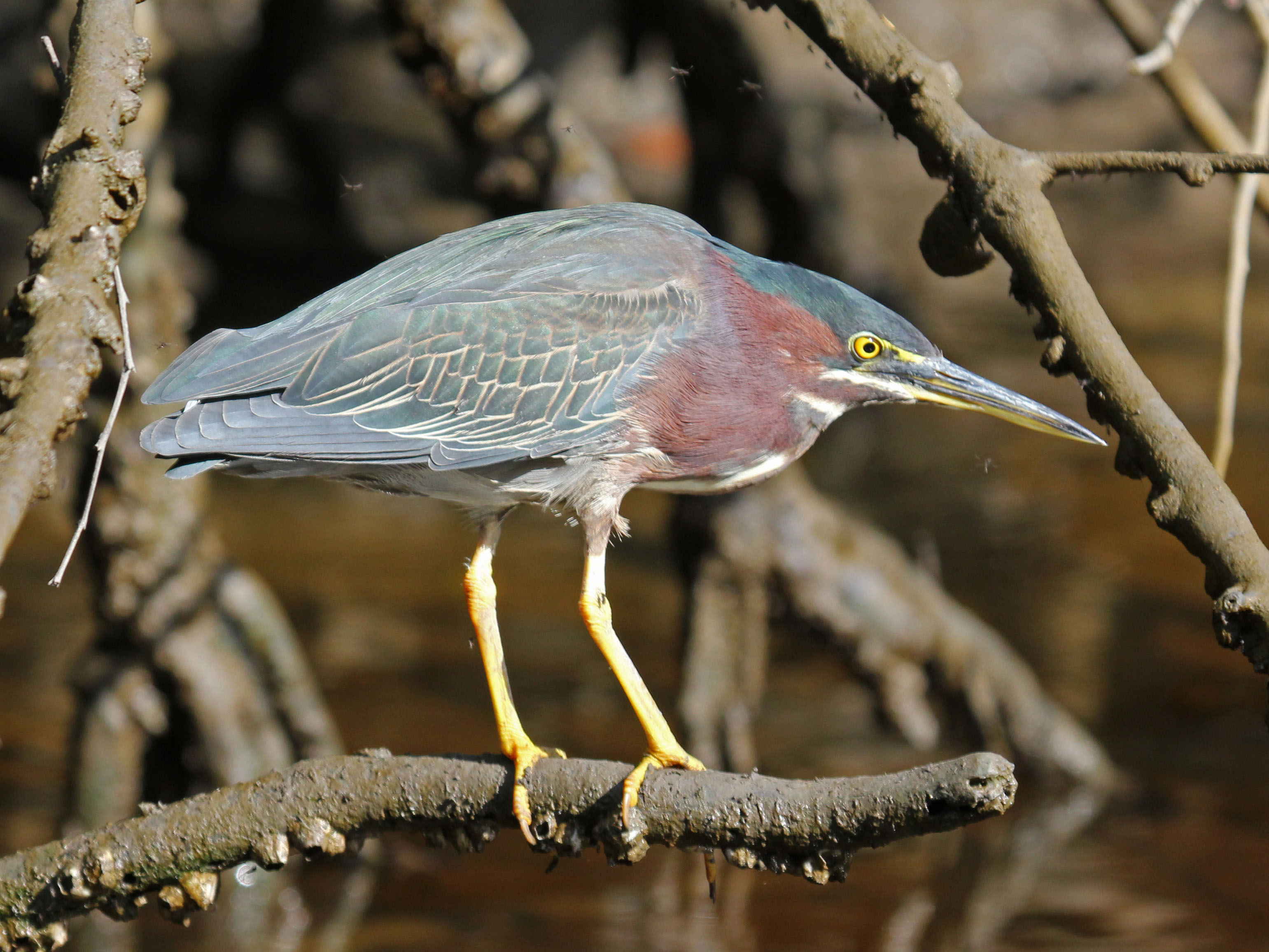 Green Heron (Butorides virescens) at Everglades Natiional Park, Florida